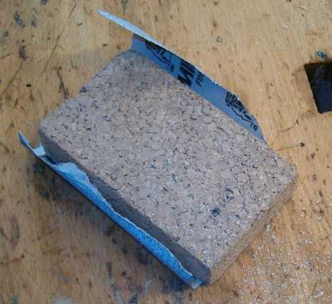 cork grinding block with a piece of sandpaper